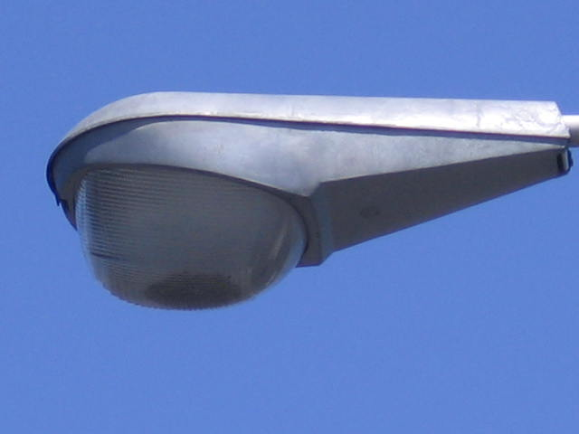 History of street lighting